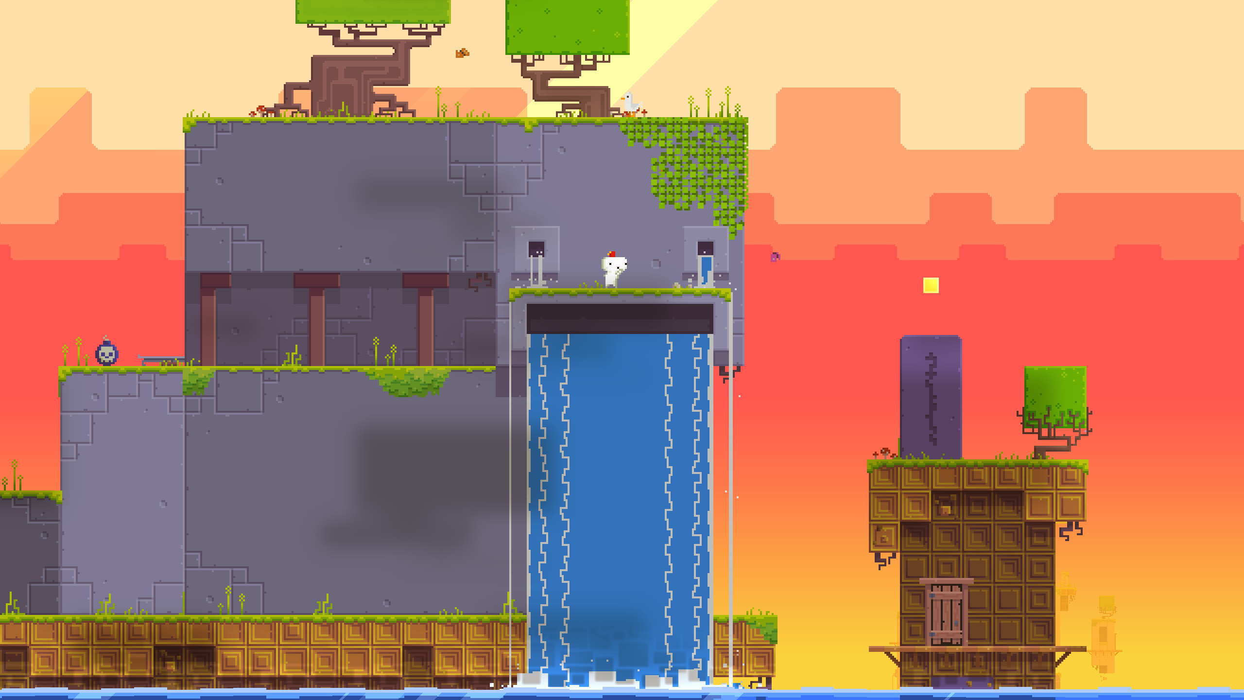 Screenshot from Fez press kit